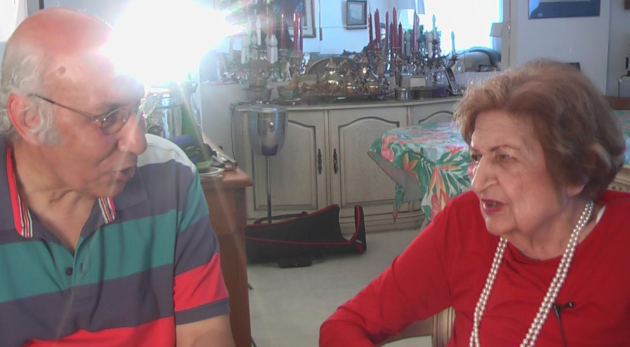 Helen Thomas & Farouk Abdulaziz